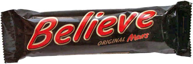 Mars Believe Bar Limited Edition Football World Cup 2006